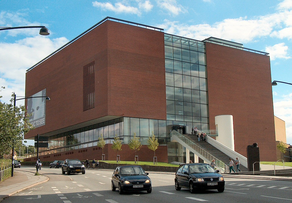 Art museum ARoS in Århus, Denmark